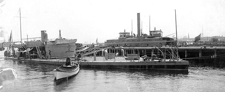 A cropped photograph of the USS Lehigh during the Spanish-American War. The ship on the opposite side of the pier is USS Governor Russell.